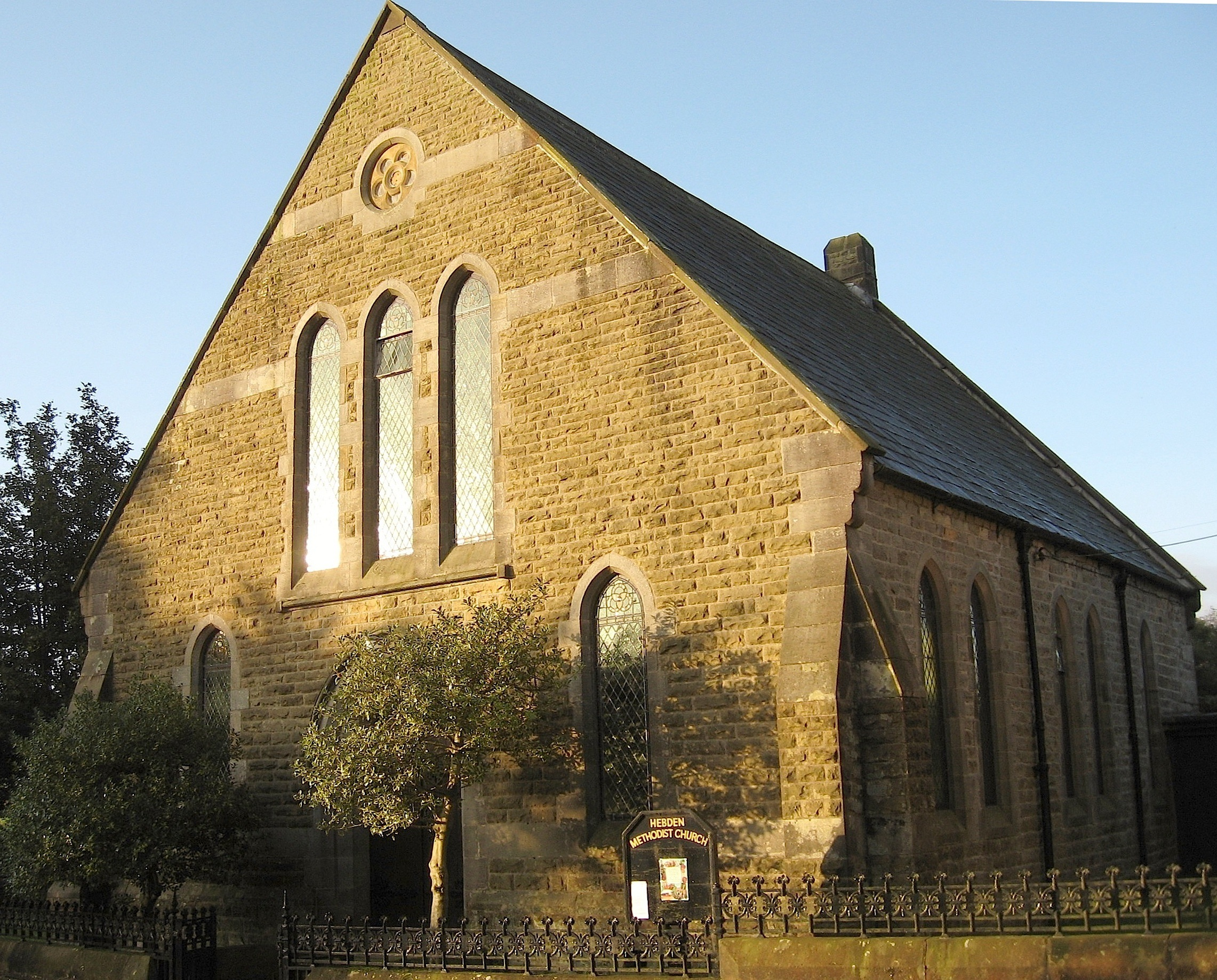 Hebden Methodist Church, Hebden, North Yorkshire, front view, morning light